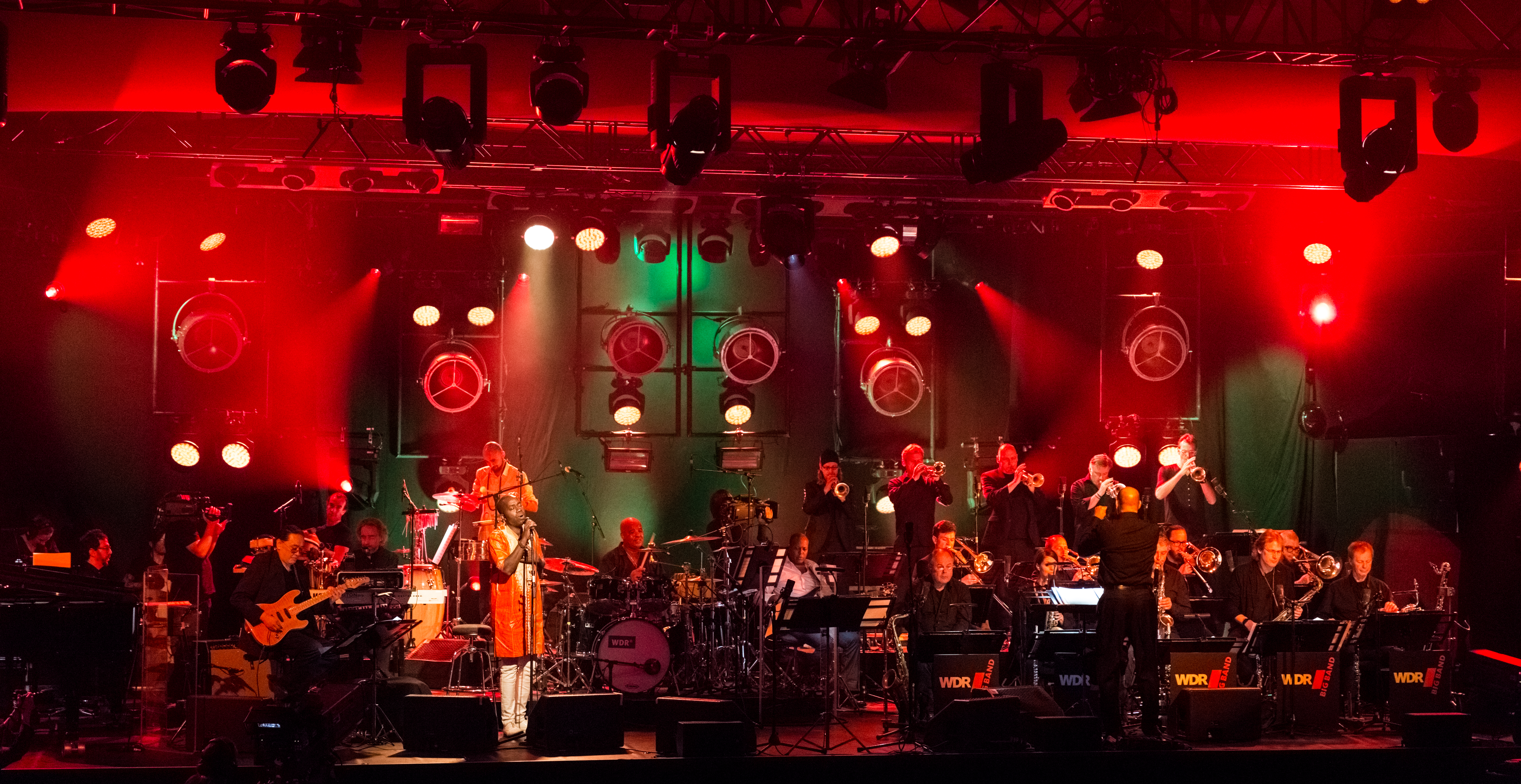 WDR Big Band feat. Mokhtar Samba - Leverkusener Jazztage 2016